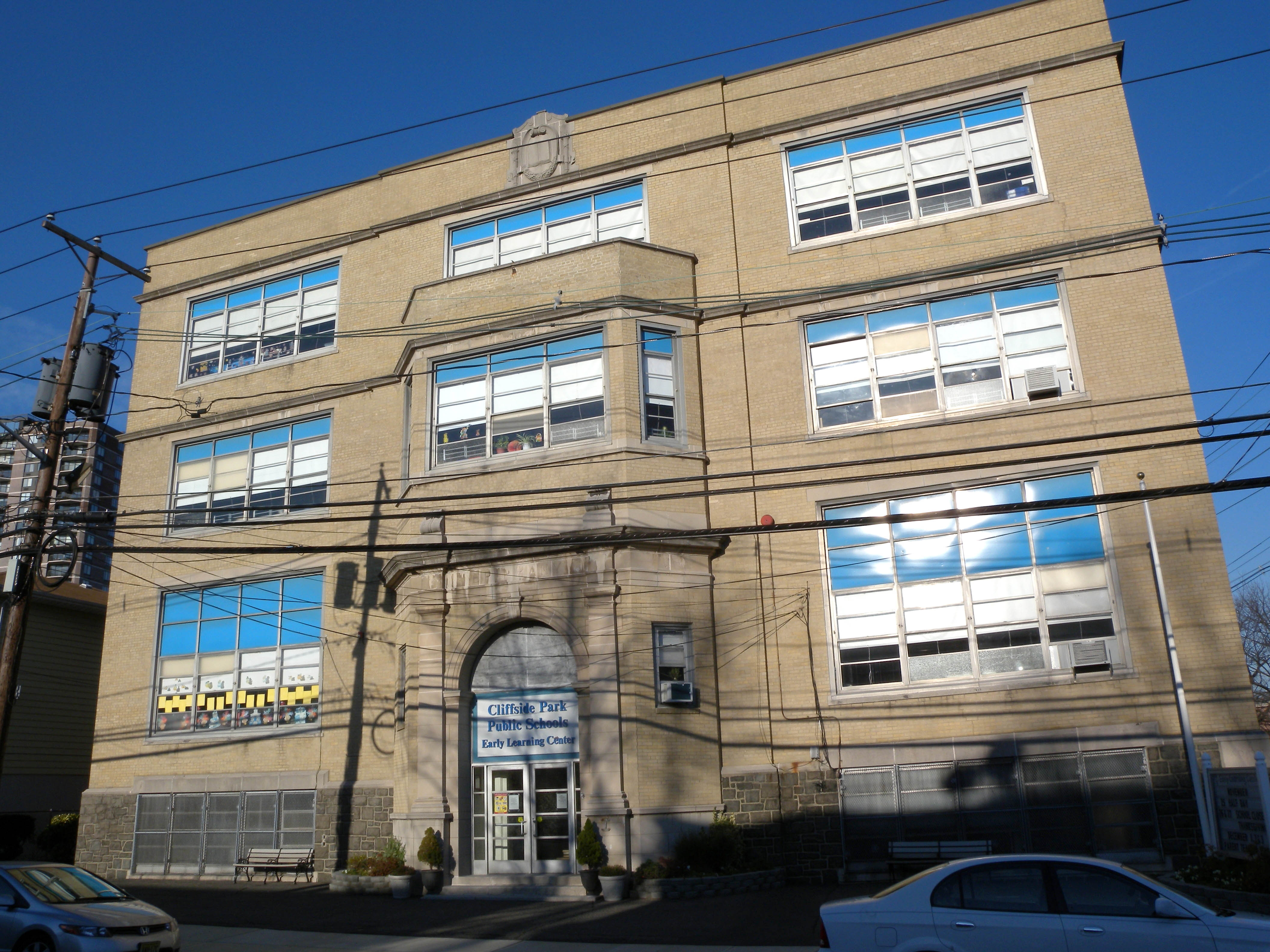 Looking north across Lafayette Avenue at Cliffside Park Early Learning Center on a sunny midday.